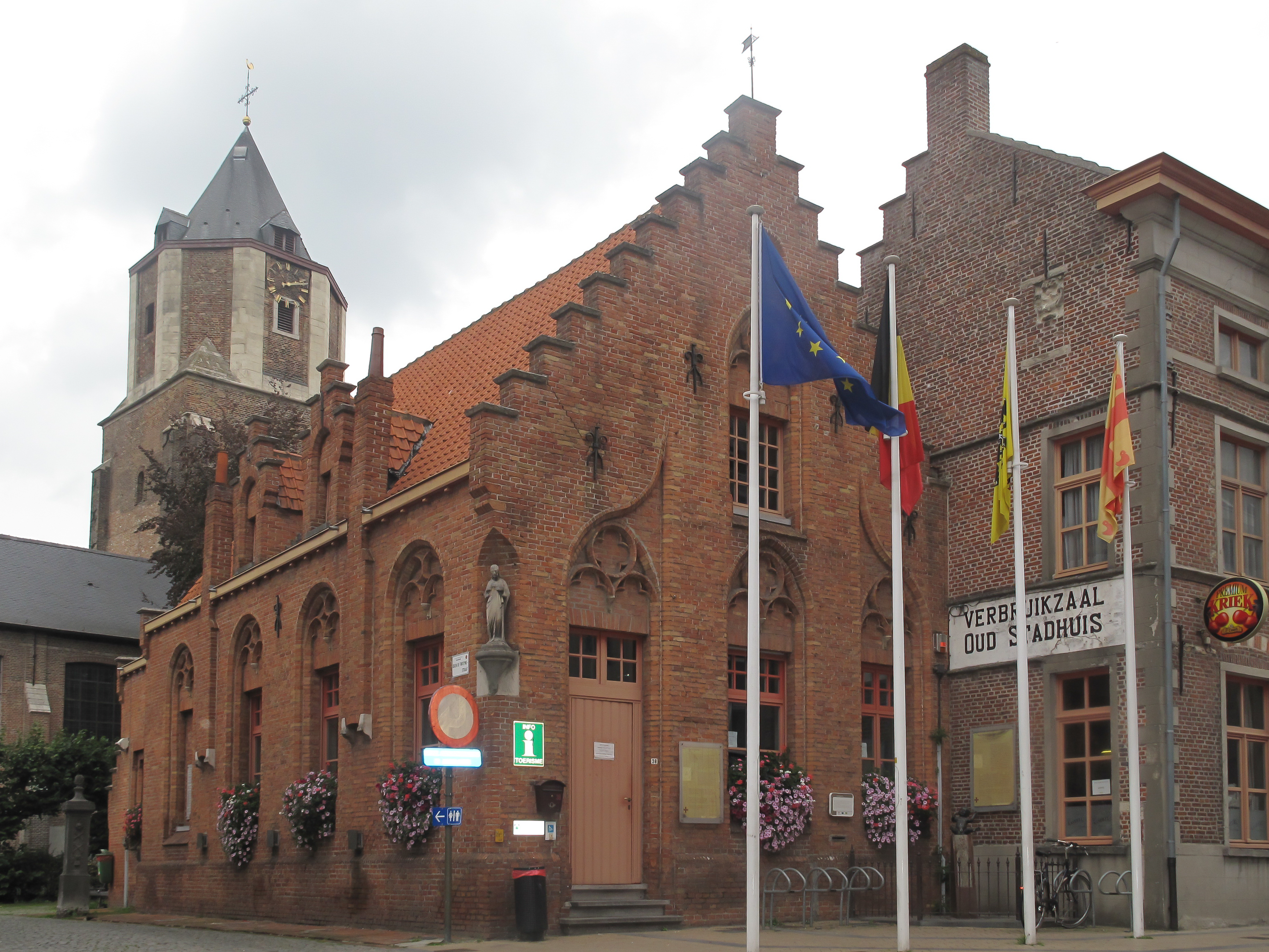 Maldegem, monumental building: Oud Schepenhuis RM50594